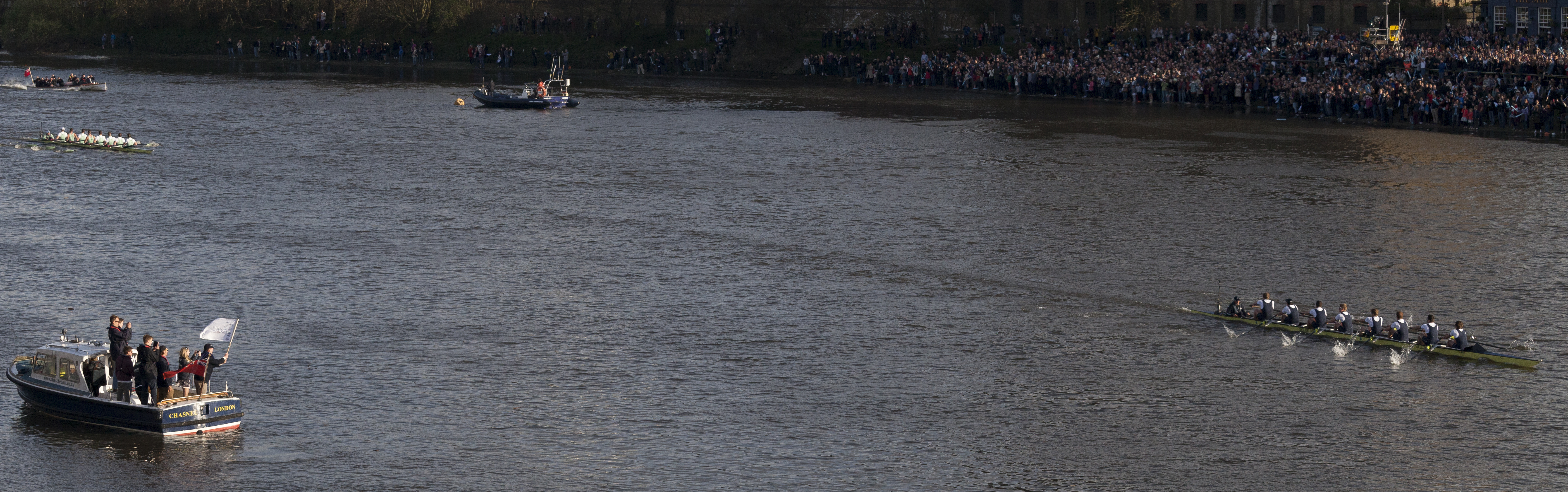 Image of Oxford & Cambridge Boat Race 2015, illustrating Oxford's Men's VIII leading Cambridge by c. six lengths at the finish just downstream of Chiswick Bridge, seen from the North (Middlesex) side of the course.